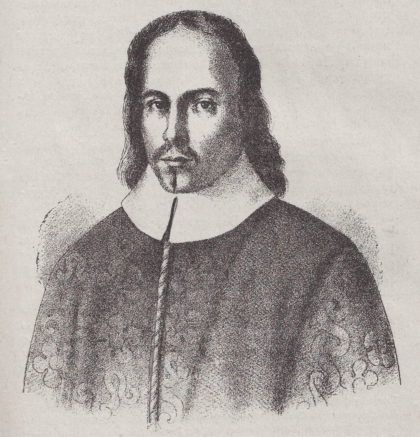 Junije Palmotić (1606-1657), a nobleman from Dubrovnik, writer, poet and dramatist. Taken from Istorija srpske književnosti (1906) by Jovan Grčić. Srpski (latinica): Junije Palmotić (1606-1657), dubrovački plemić, pisac, pesnik i dramaturg. Preuzeto iz Istorije srpske književnosti (1906) Jovana Grčića.